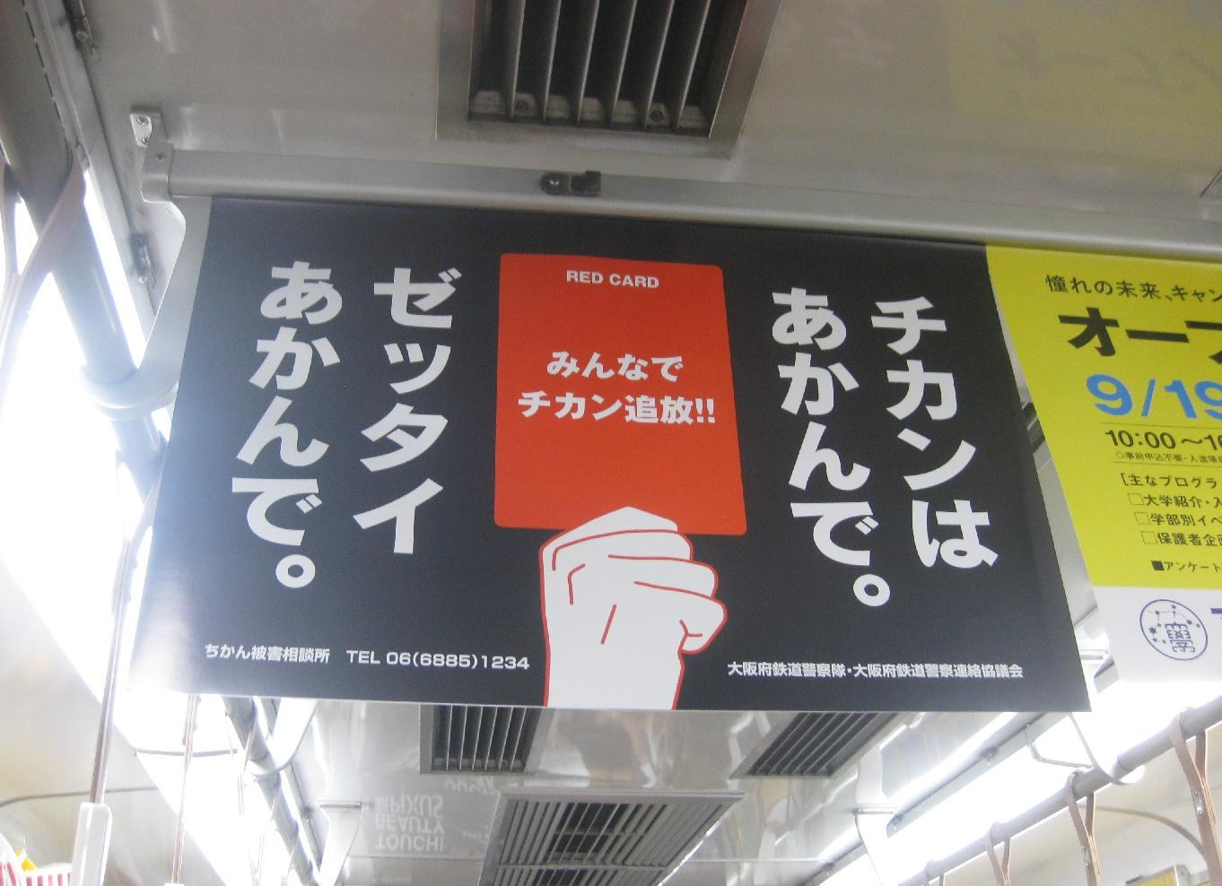 A manner-up poster in Kansai, using Kansai dialect. Text reads: “チカンはあかんで。ゼッタイあかんで。”, surrounding a red card reading “RED CARD / みんなで / チカン追放!!” In romanization: “Chikan wa akan de. Zettai akan de. RED CARD Minna de chikan tsuihō.” With kanji, it would read 「痴漢はあかんで。絶対あかんで。RED CARD みんなで痴漢追放。」 Translates to “Groping is out. Absolutely out. RED CARD [Let us] all get rid of groping.” あかん (akan) is Kansai dialect for standard だめ (dame), meaning “bad, no good”.